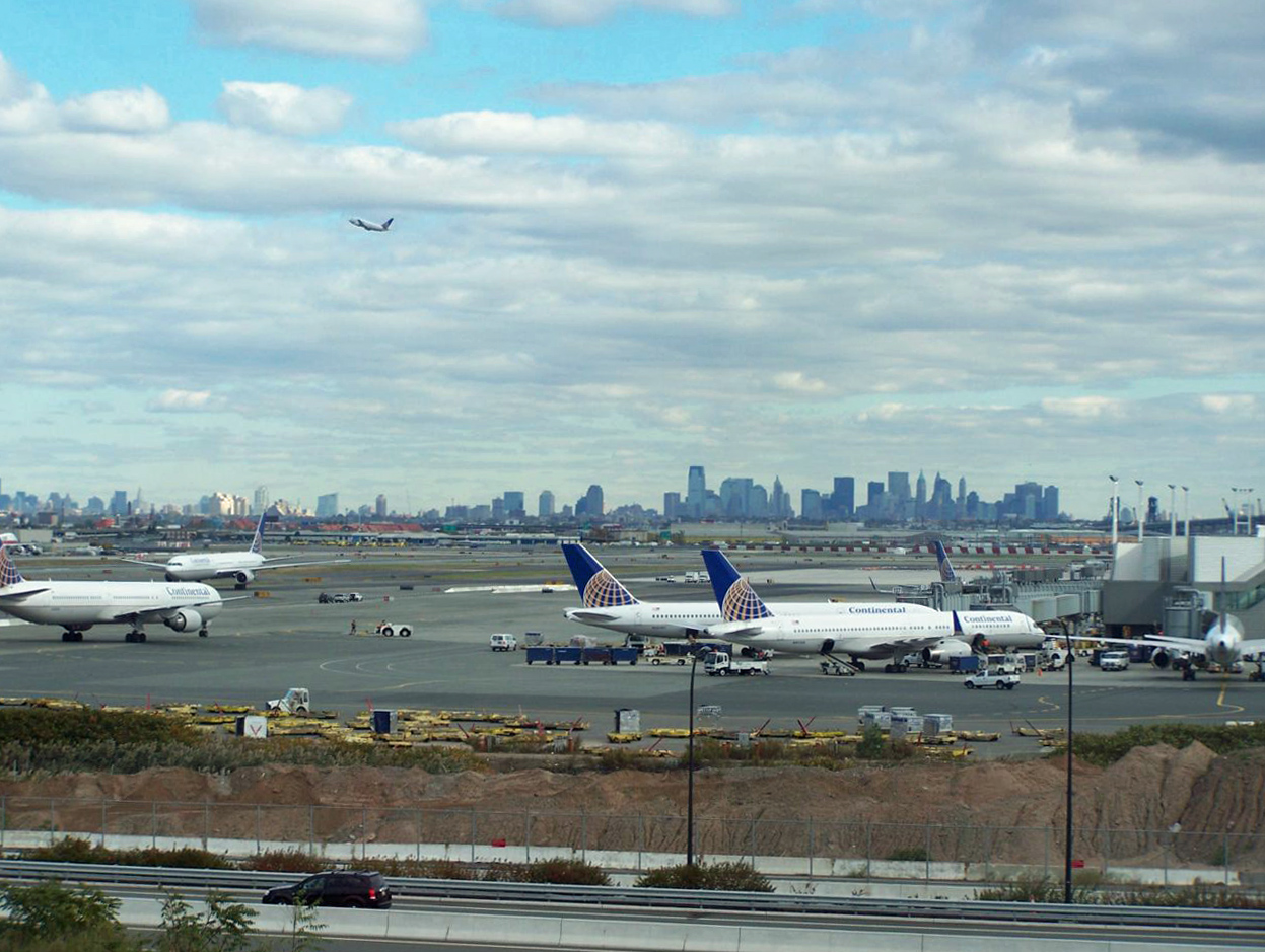 Newark Airport, NJ. Foreground: Terminal C; background: The borough of Manhattan.